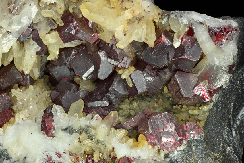 Cinnabar crystals of an individual size of one centimeter, on quartz. Almadén (Ciudad Real) Spain. Coll. Museum of the School of Mining Engineers of Madrid. Photo. Joaquim Callén